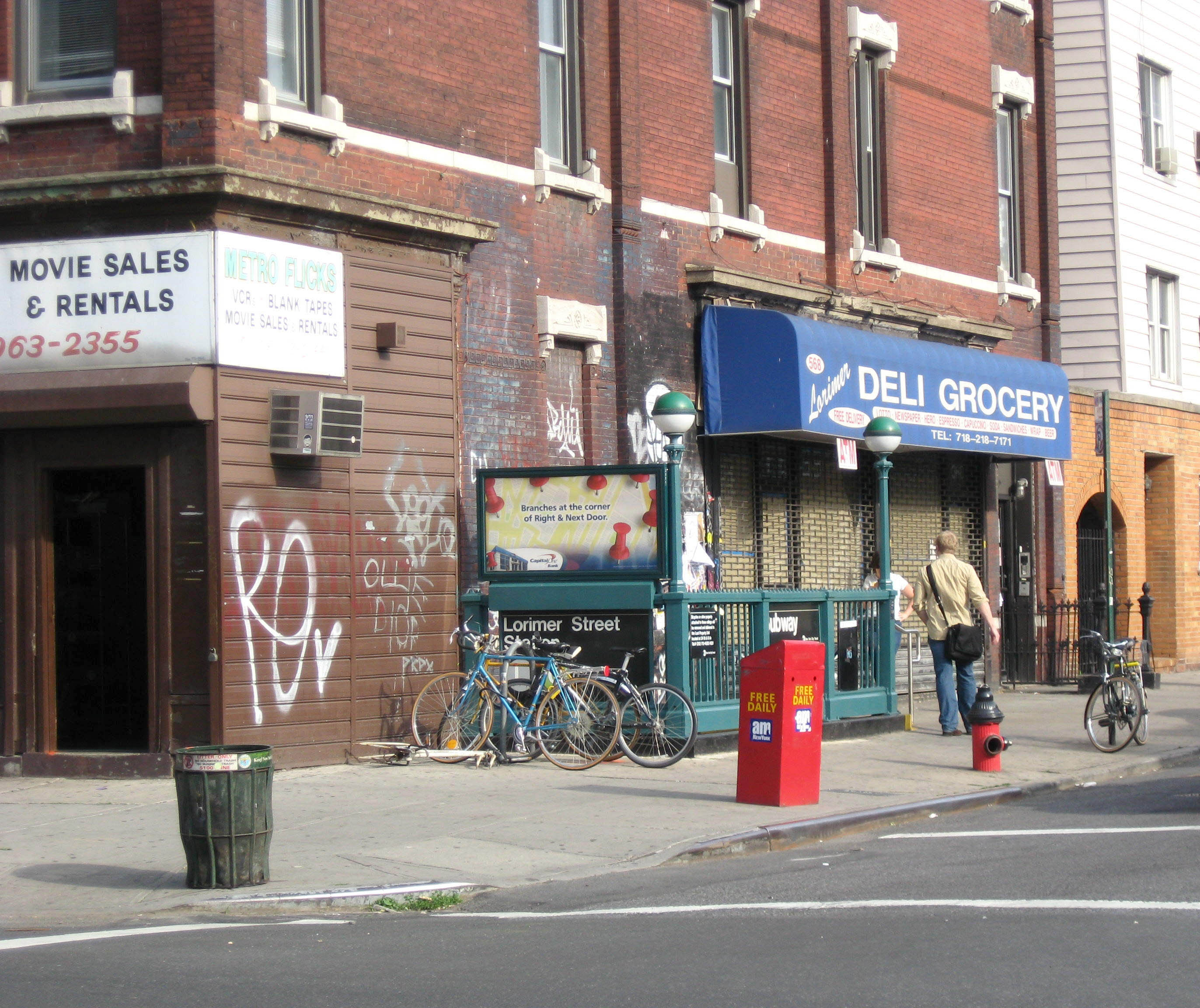 Looking southeast across Metropolitan Avenue in Northiside at Lorimer Street (BMT Canarsie Line) station on a mostly sunny afternoon. ZIP 11211.